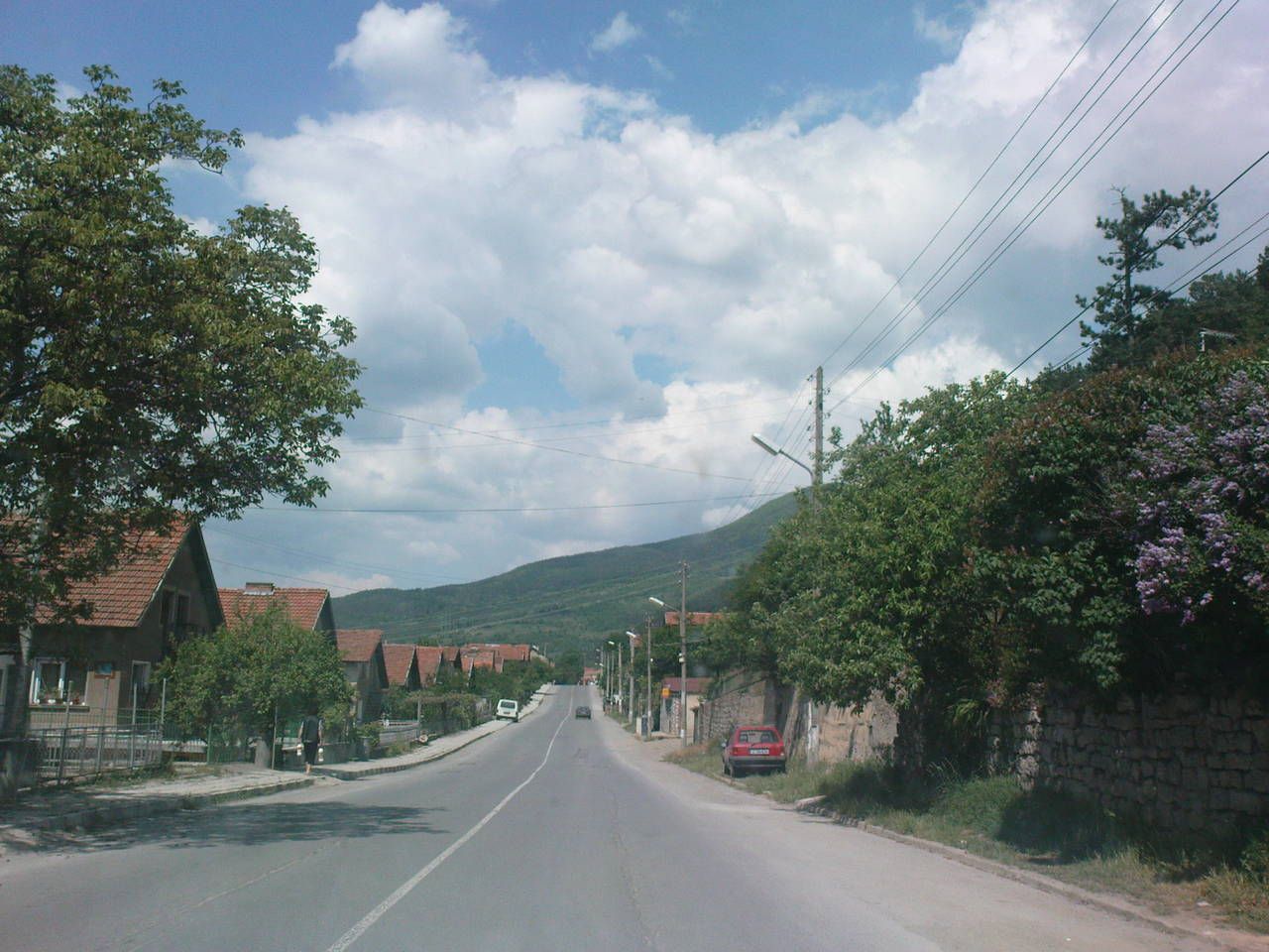 Iskrets (Bulgaria), main street